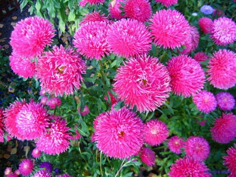 flowers